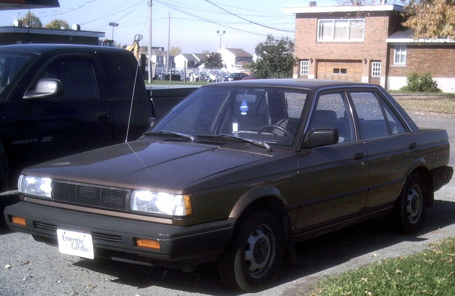 1987-1988 Nissan Sentra photographed in Montreal, Quebec, Canada.